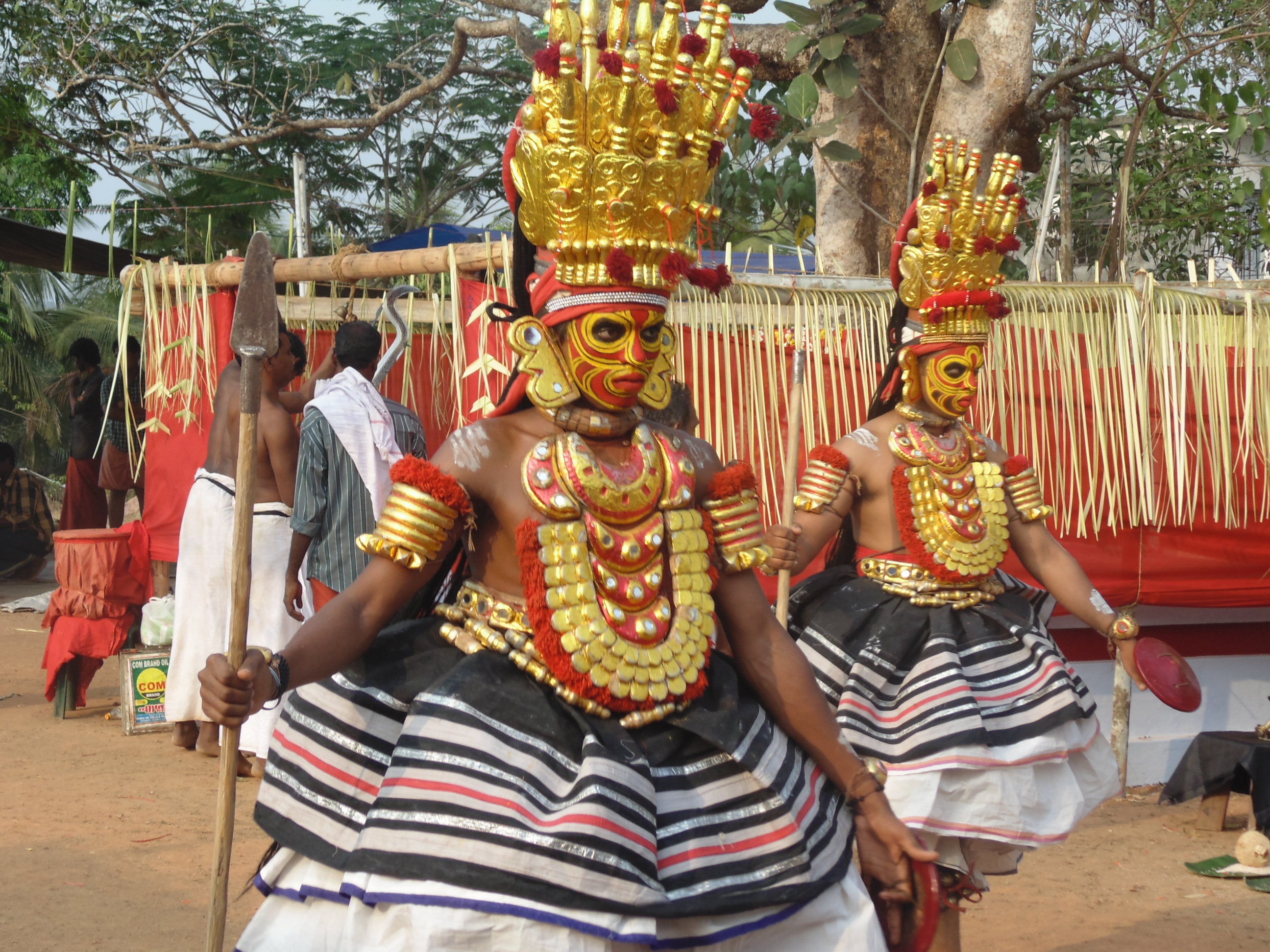 Thirayattam- Karumakan Vallattu at Parappara kunnu, calicut,\ By